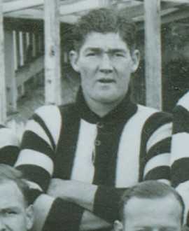 Photo of Joe Toleman in 1942